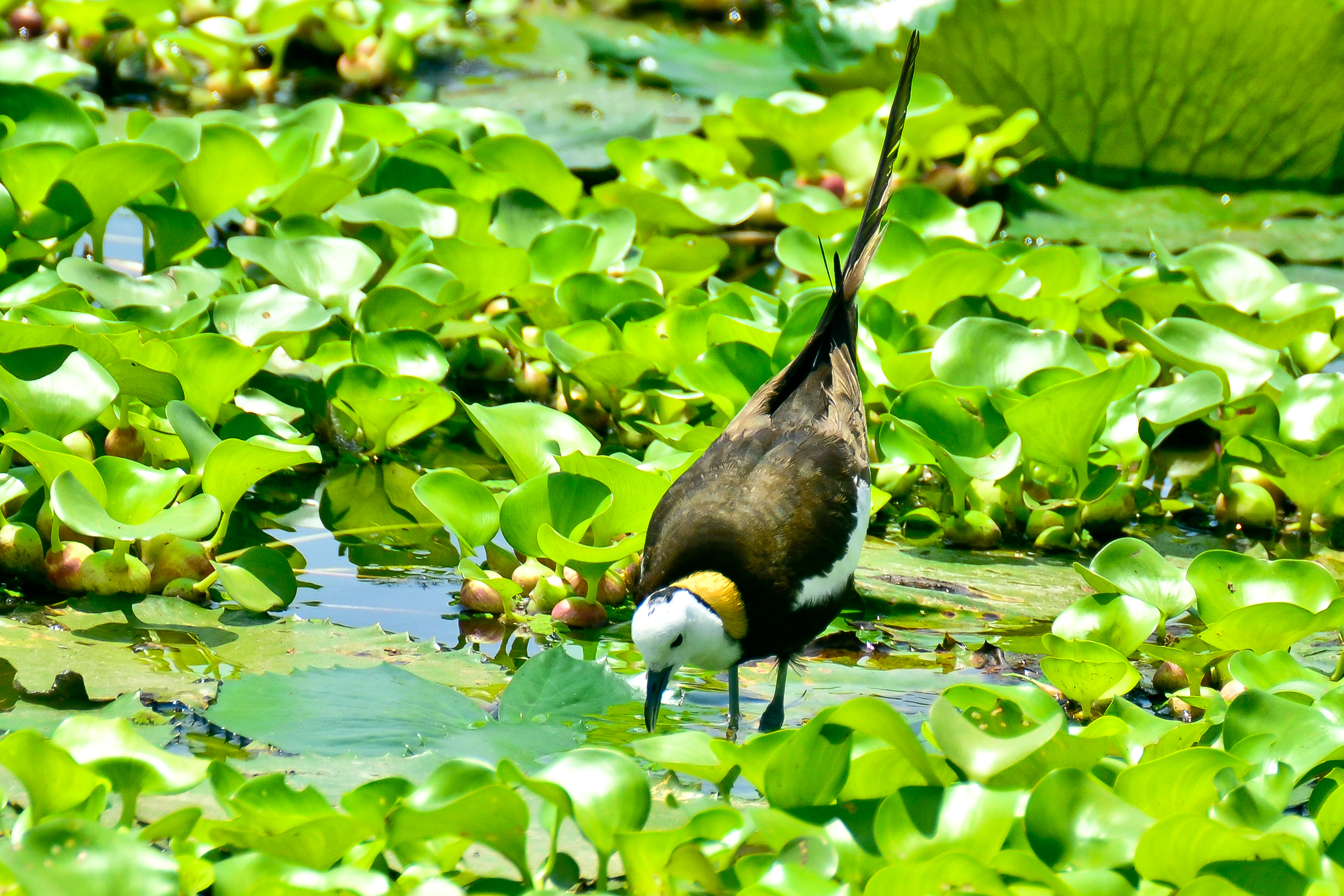 Pheasant-tailed Jacana (Hydrophasianus chirurgus) at Pananjadi Lake, Ambasamudram, Tirunelveli District, Tamil Nadu, India